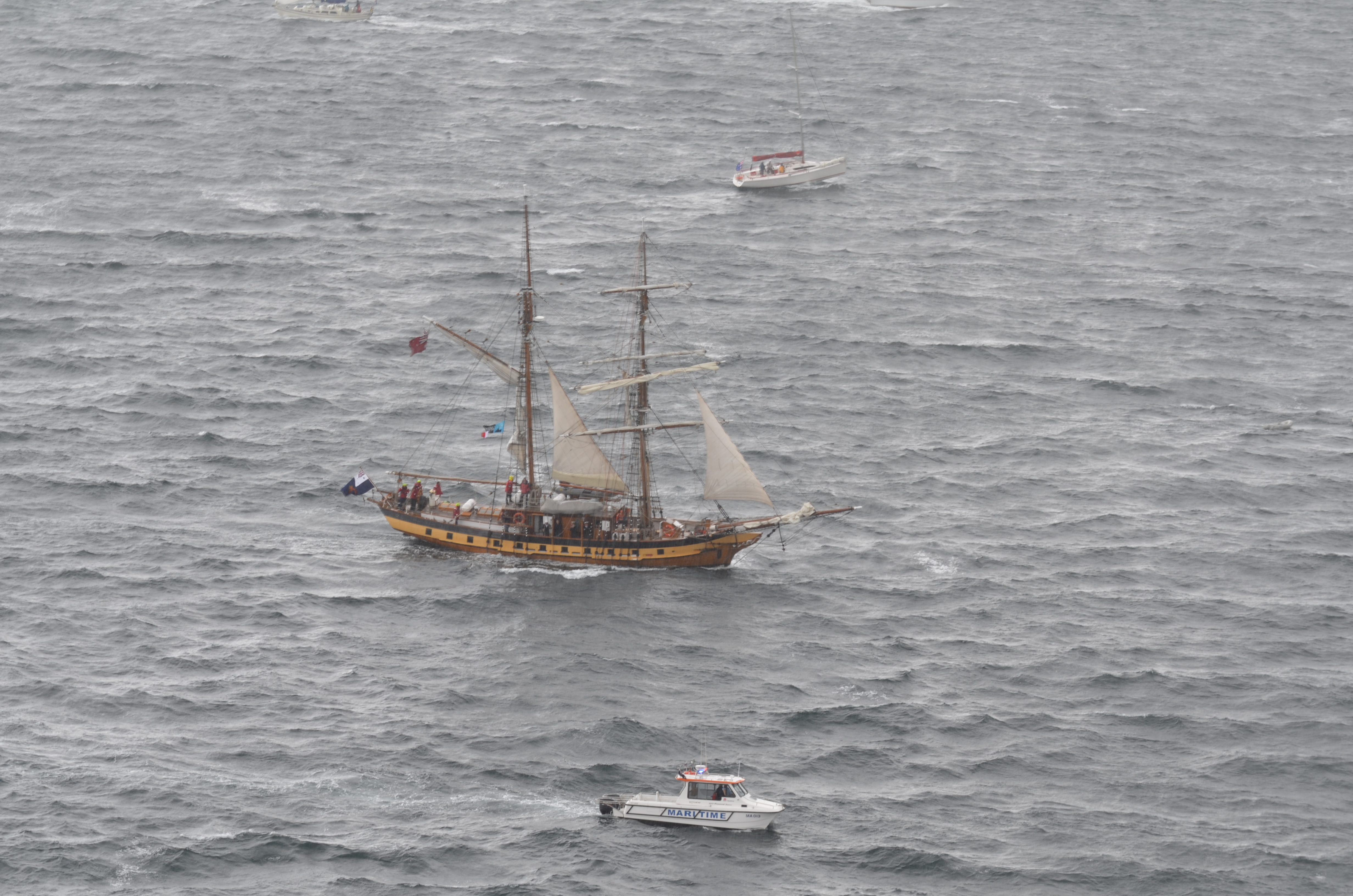 Photographs taken during day 1 of the Royal Australian Navy International Fleet Review 2013. The tallship Windeward Bound entering Sydney Harbour